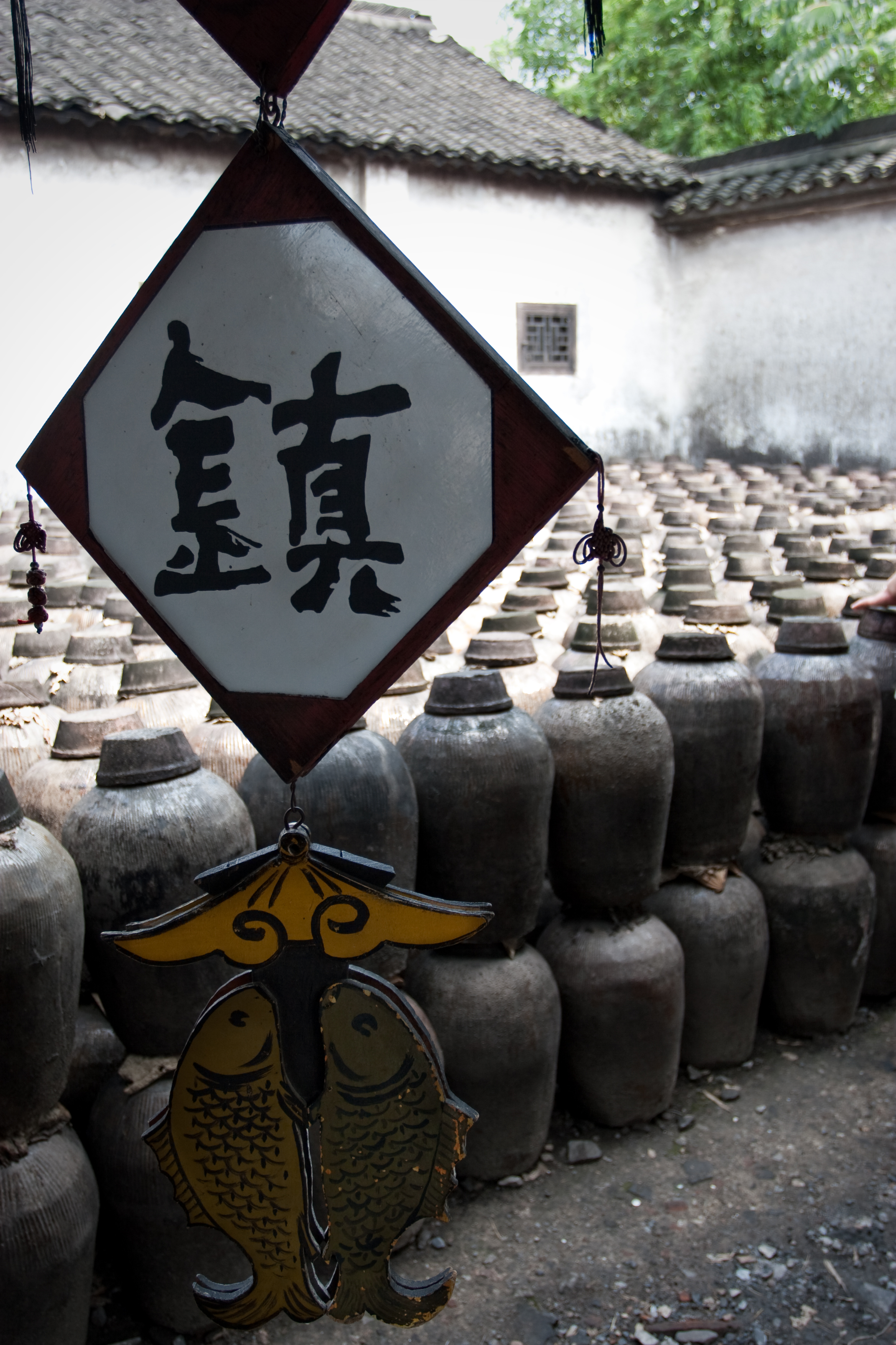 Rice wine is made and sold in Xitang for locals and tourists.